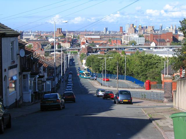 Argyle Street South, Birkenhead